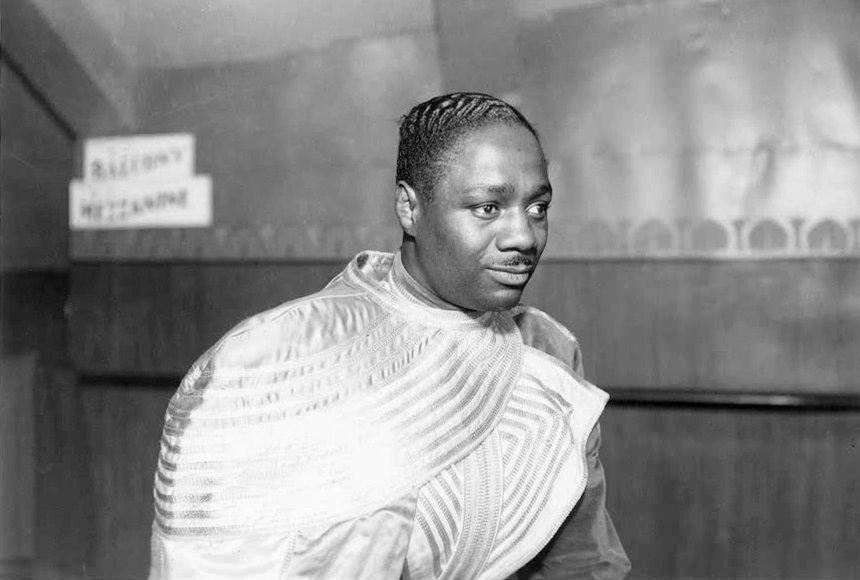 Photograph of Canada Lee as Banquo in the Federal Theatre Project production of Macbeth at the Lafayette Theatre, Harlem